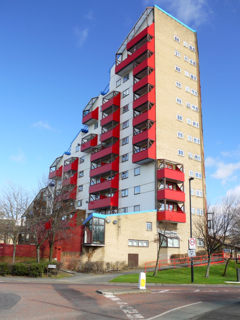 Tom Collins House, Byker Wall An extravagant sheltered housing block which terminates the south-east end of the north westerly Dunn Terrace sector of Byker Wall